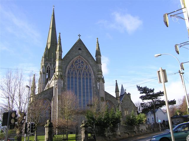 St Eugene's Cathedral, Derry / Londonderry It is located at Creggan Street